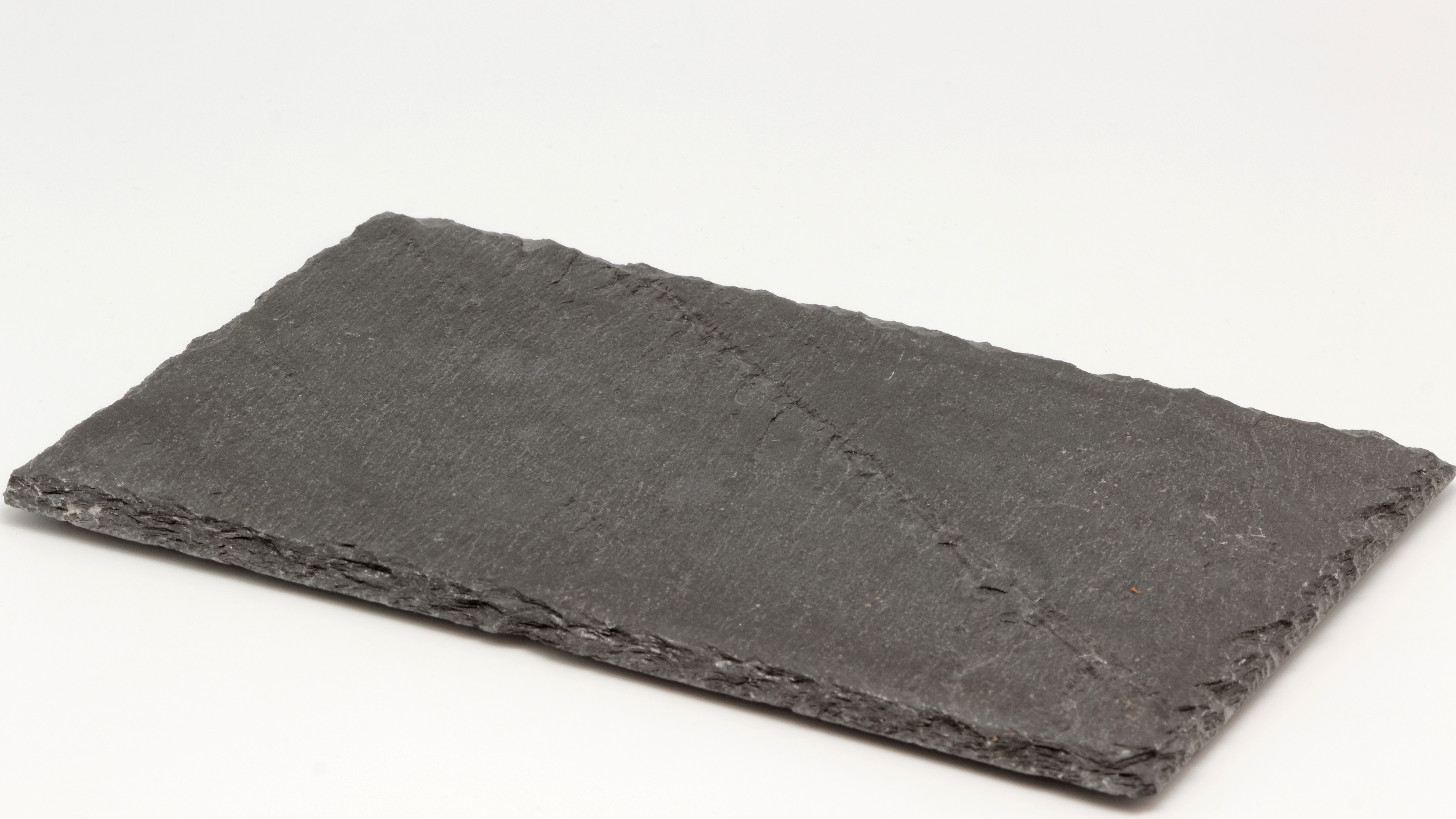 Slate